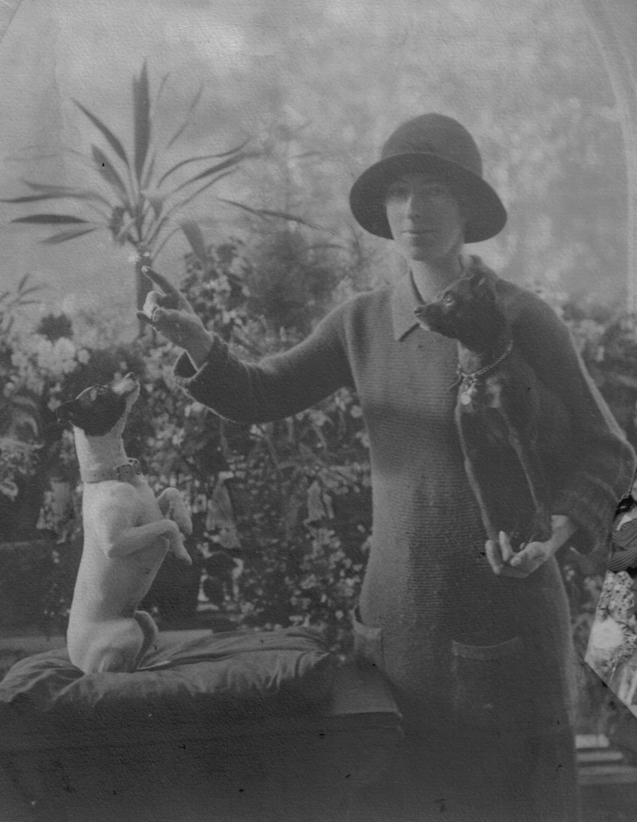 Viva Seton Montgomerie with her dogs.